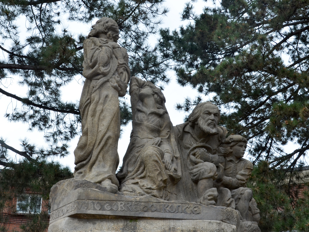 Komenský is saying goodbye to his motherland, sculpture by František Bílek, Prague, 1926